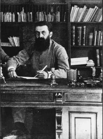 Herzl at his desk